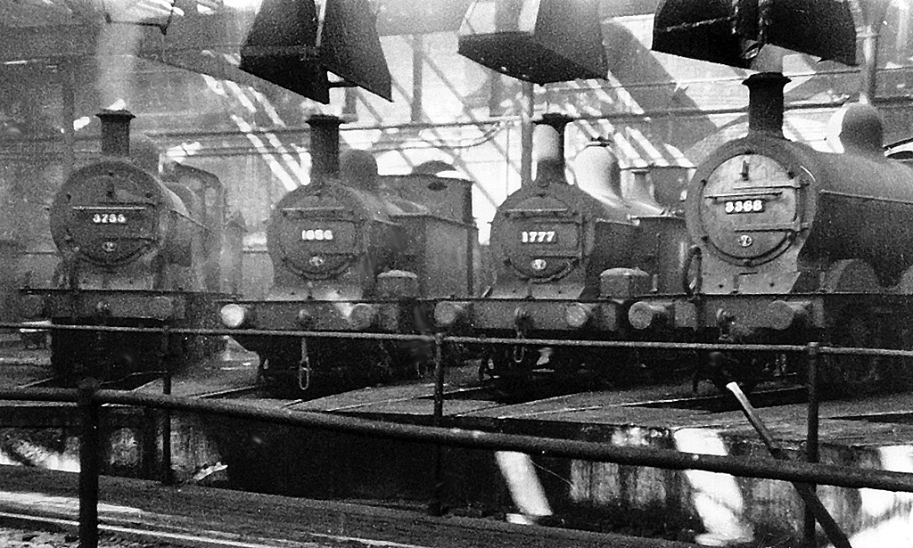 Saltley Locomotive Depot: inside one of the three roundhouses. Saltley Shed was the principal Depot for the Midland Division of the LMSR (later London Midland Region of BR) in Birmingham and one of the largest on the system. When I took this photograph - one of my very earliest - in 1946, the Depot had an allocation of 168 locomotives (all steam), comprising:- 16 4-6-0s, 16 4-4-0s, 3 2-8-0s, 3 0-8-0s, 11 2-6-0s, 96 - no less - 0-6-0s, 3 2-6-4Ts, 4 2-6-2Ts, 13 0-6-0Ts and 3 0-4-4Ts. The relatively small number of passenger engines was made up by the allocation of the much smaller Shed at Bournville on the south side of New Street. The great number of 0-6-0s was characteristic of the Midland Railway/Division, which until the late 1930s utilised 'small engines' generally on both its freight and passenger trains: indeed, the lack of strength of certain bridges on the main Derby - Bristol trunk line necessitated the continuation of this policy until then. Grouped round this roundhouse turntable are four Midland engines:- 3F 0-6-0 No. 3755, 2F 0-6-0Ts Nos. 1856 and 1777, and 3F 0-6-0 No. 3368. Saltley closed to steam on 6/3/67, but continued to service Diesel locomotives subsequently for at least another 30 years.